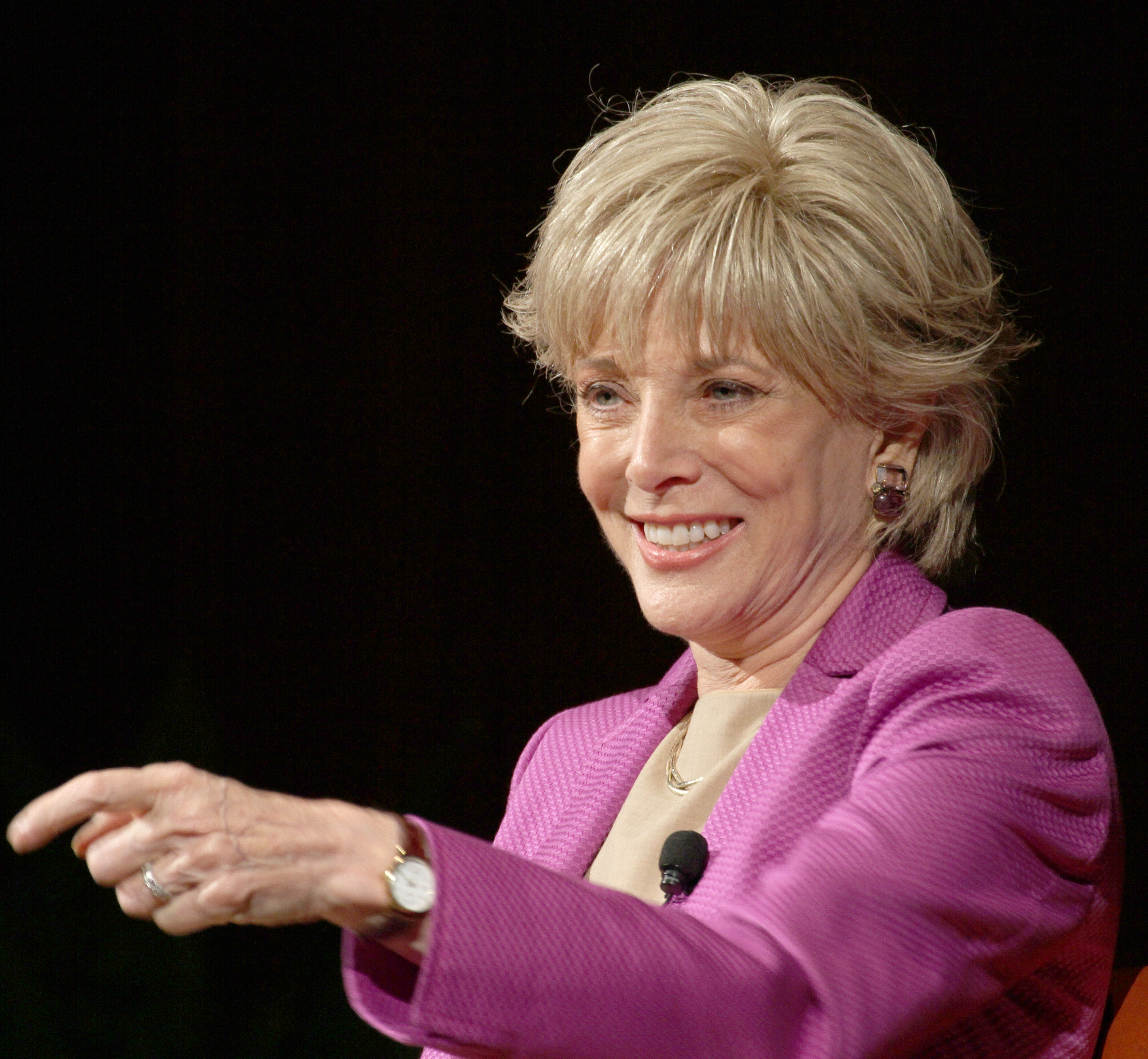 Lesley Stahl at the LBJ Presidential Library.